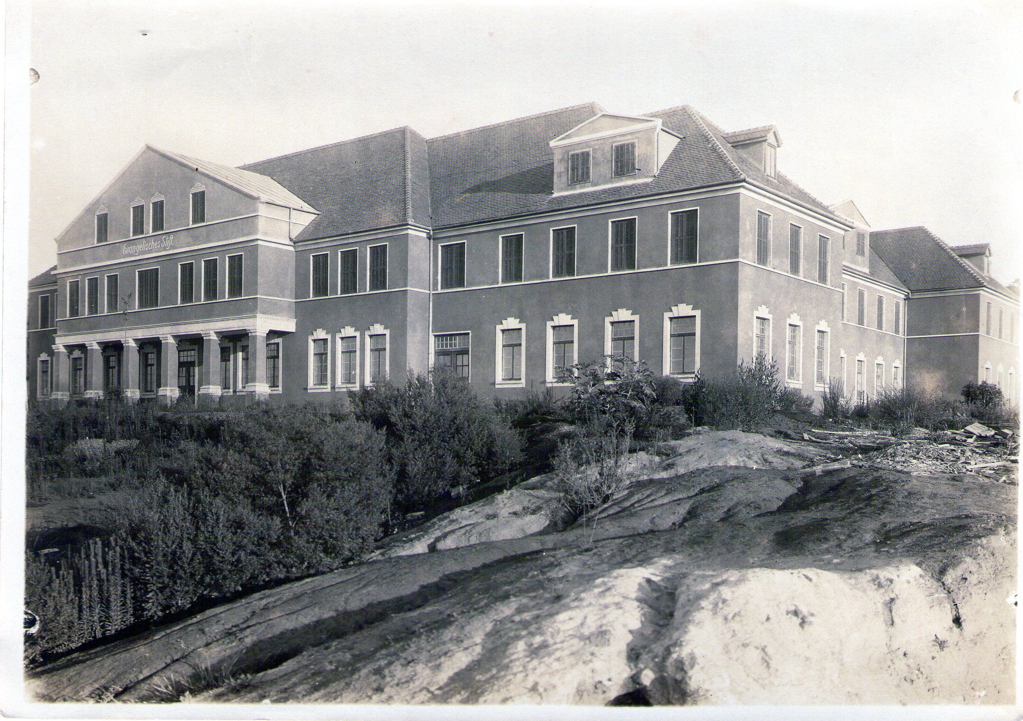 Evangelic community in Hamburgo Velho